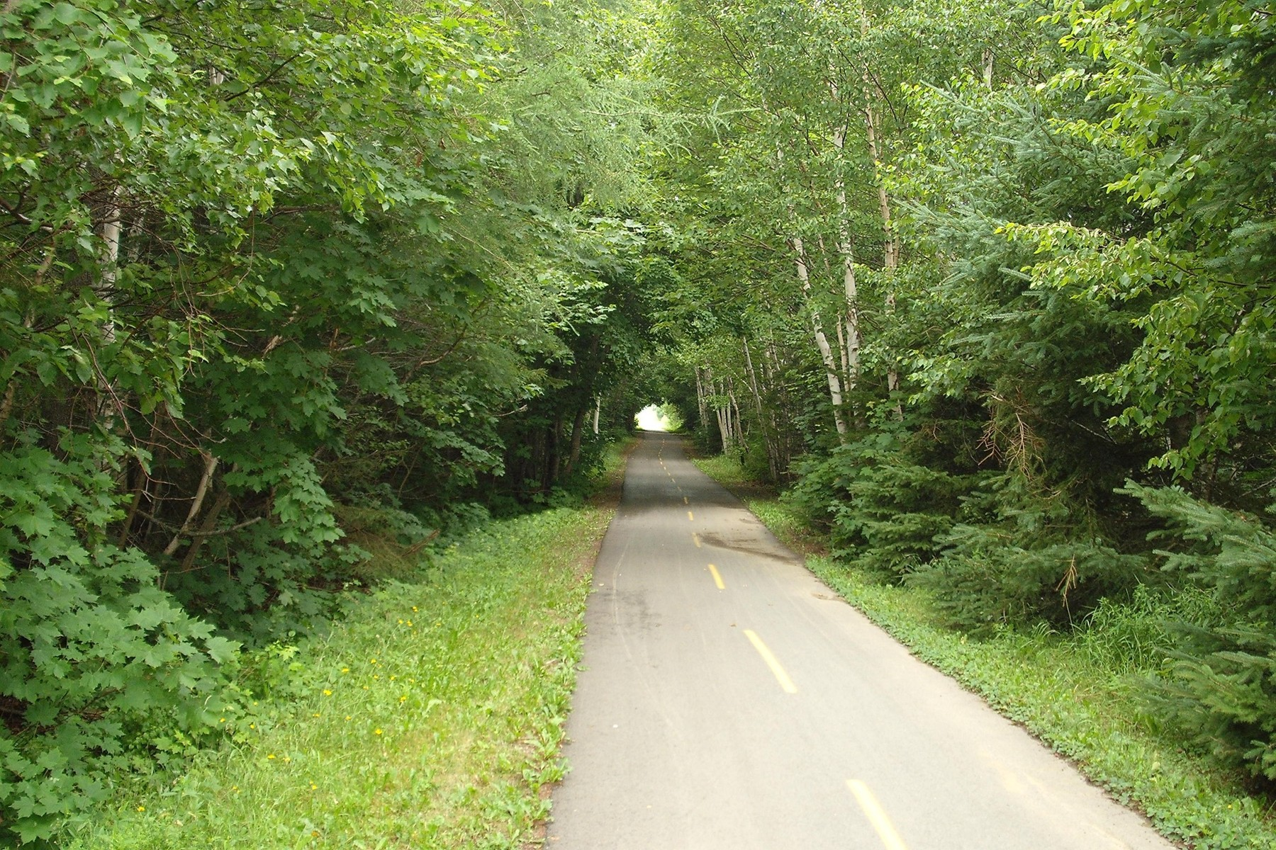 Biking path near downtown Caraquet (NB)